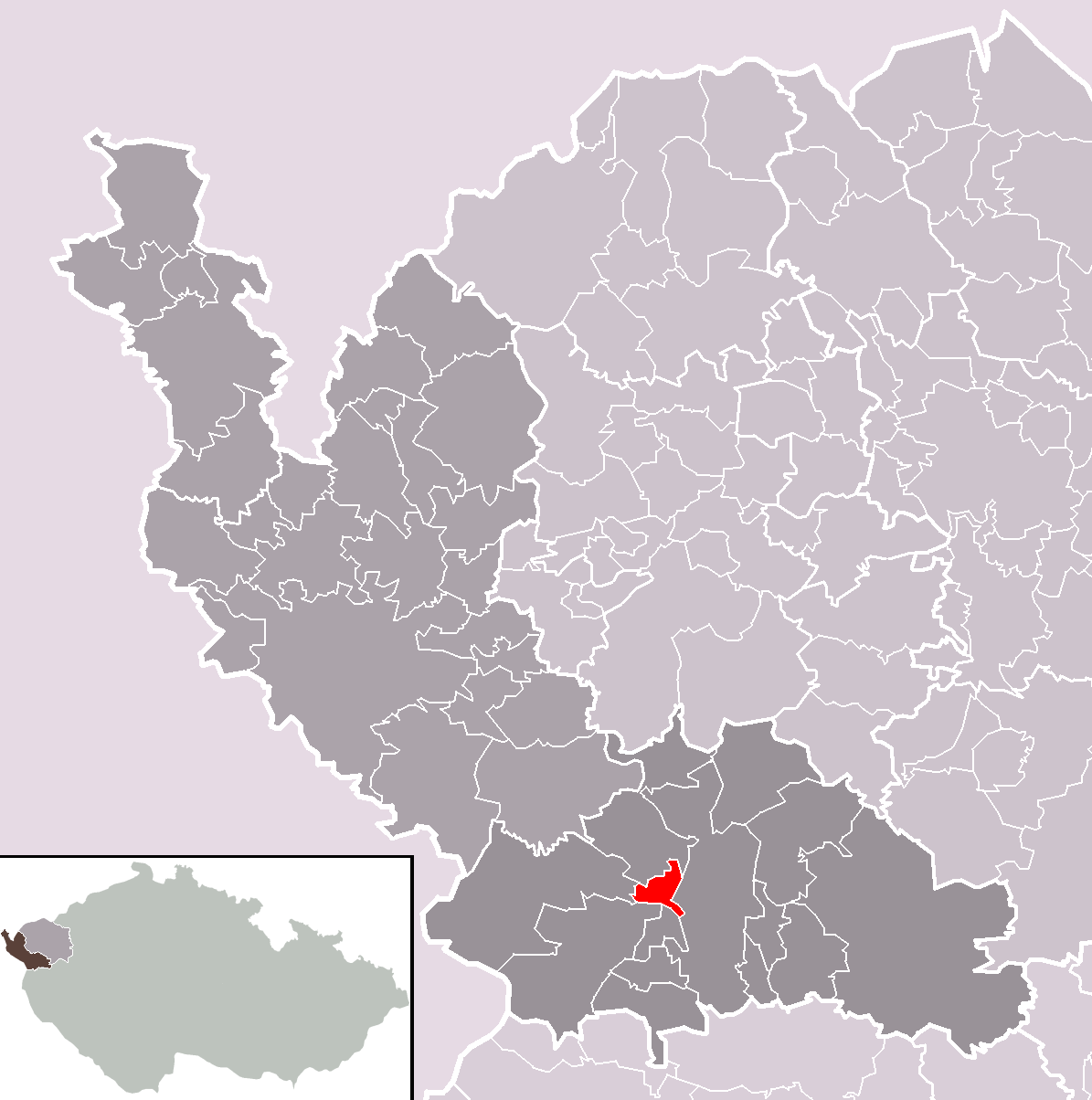 Location of Valy municipality within Cheb District and administrative area of Mariánské Lázně as a Municipality with Extended Competence.